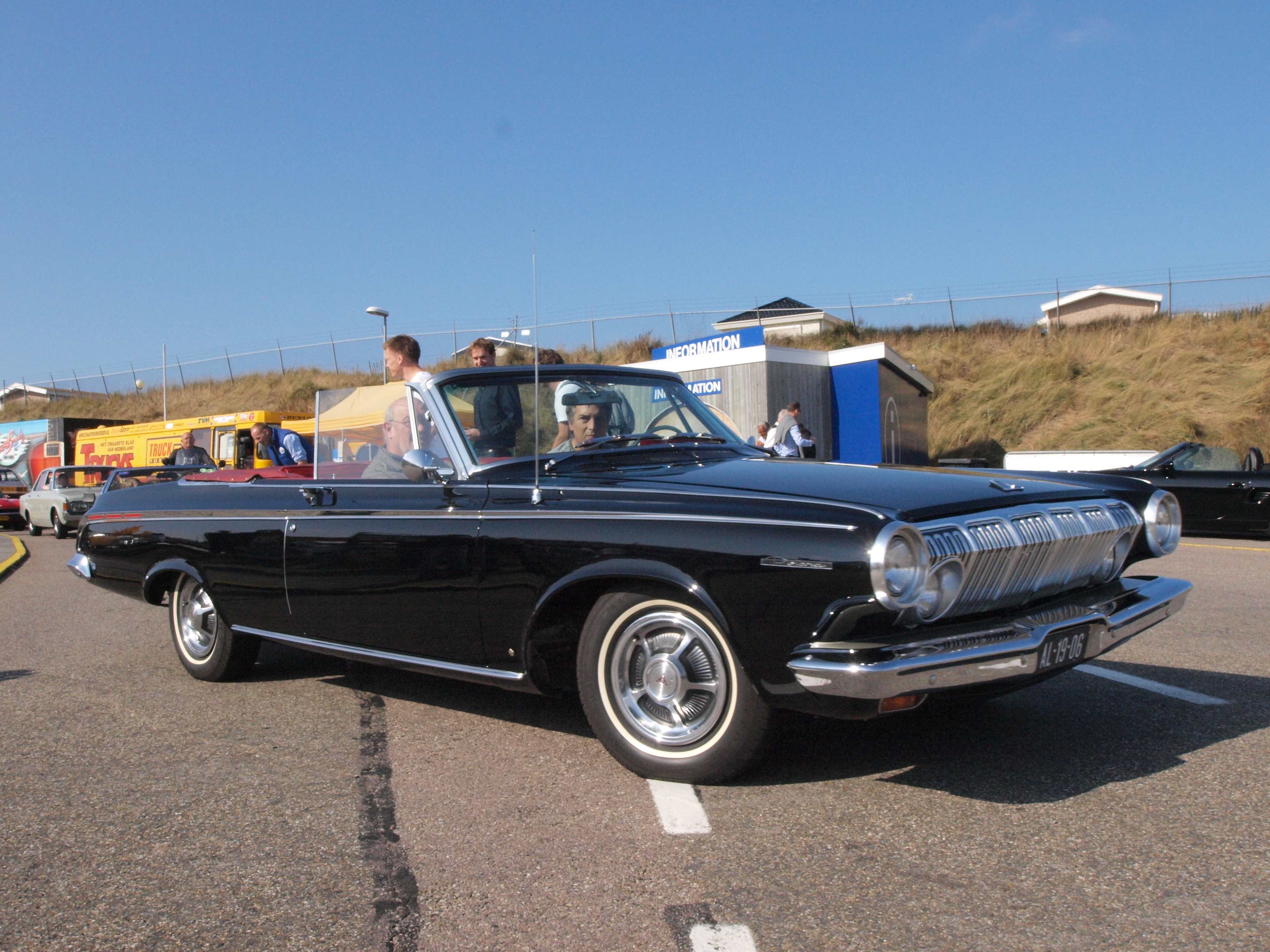 Photographed at the Nationaal Oldtimer Festival Zandvoort 2009, The Netherlands. OLYMPUS DIGITAL CAMERA